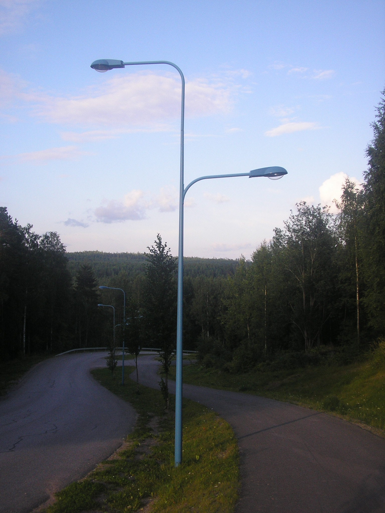 Street lamp in Vuorenlahti, Muurame, Finland.